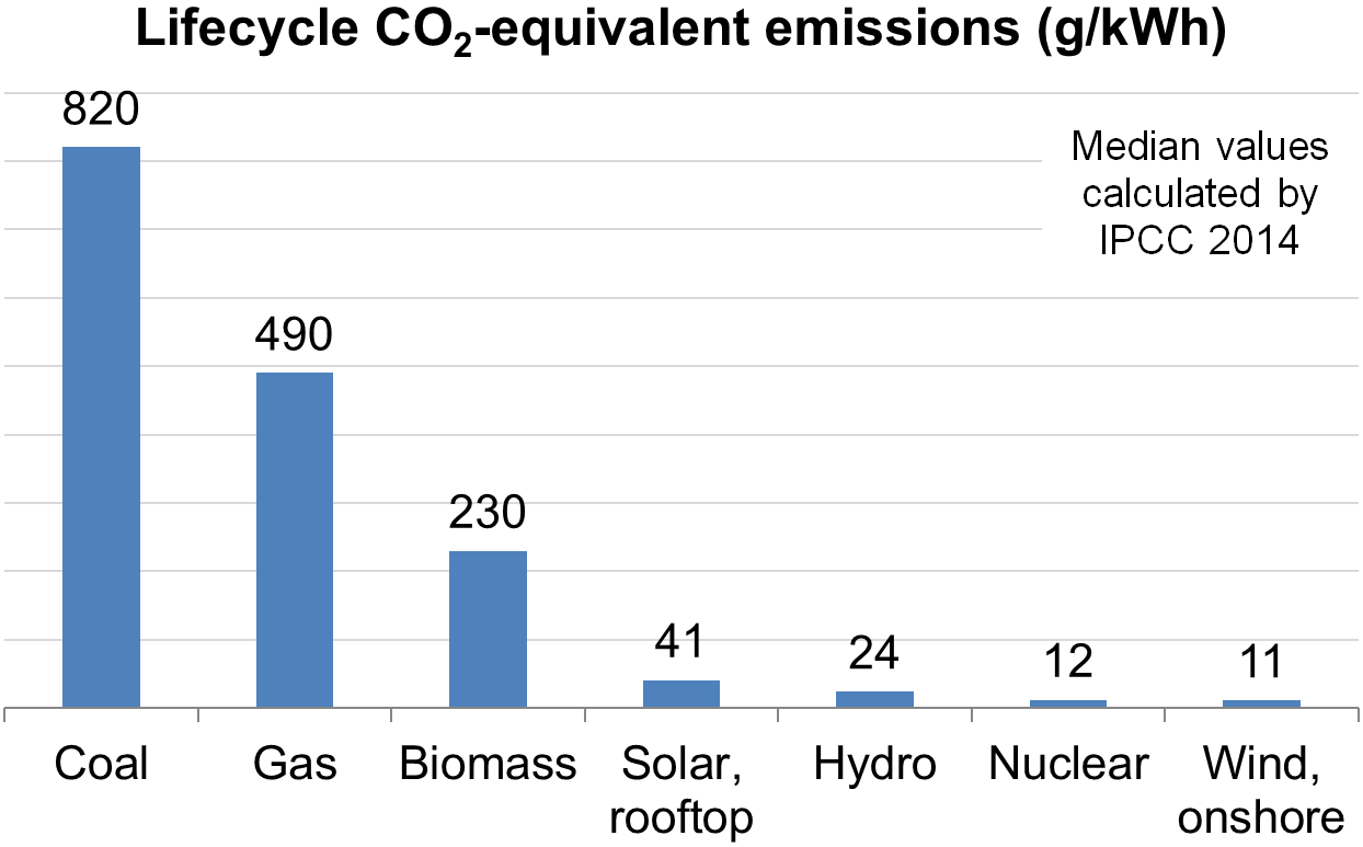 Emissions of selected electricity supply technologies (gCO2eq/kWh). Median values from Table A.III.2 of Climate Change 2014: Mitigation of Climate Change. Contribution of Working Group III to the Fifth Assessment Report of the Intergovernmental Panel on Climate Change.